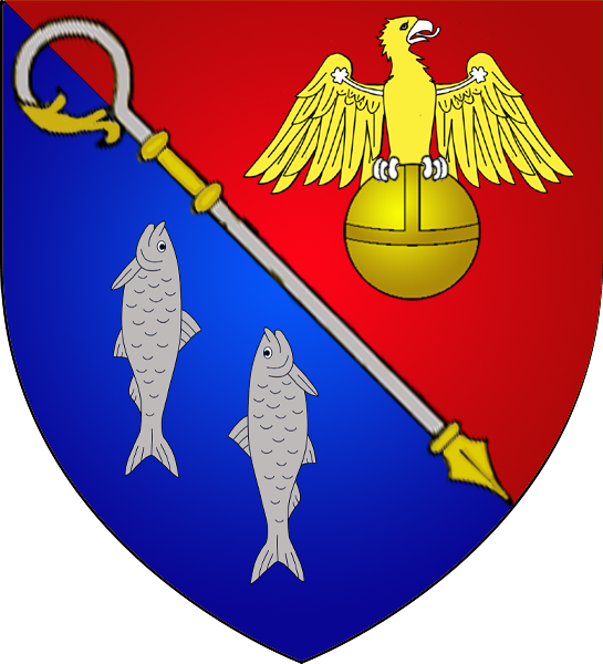 Coat of arms of the municipality of Dalheim, Luxembourg